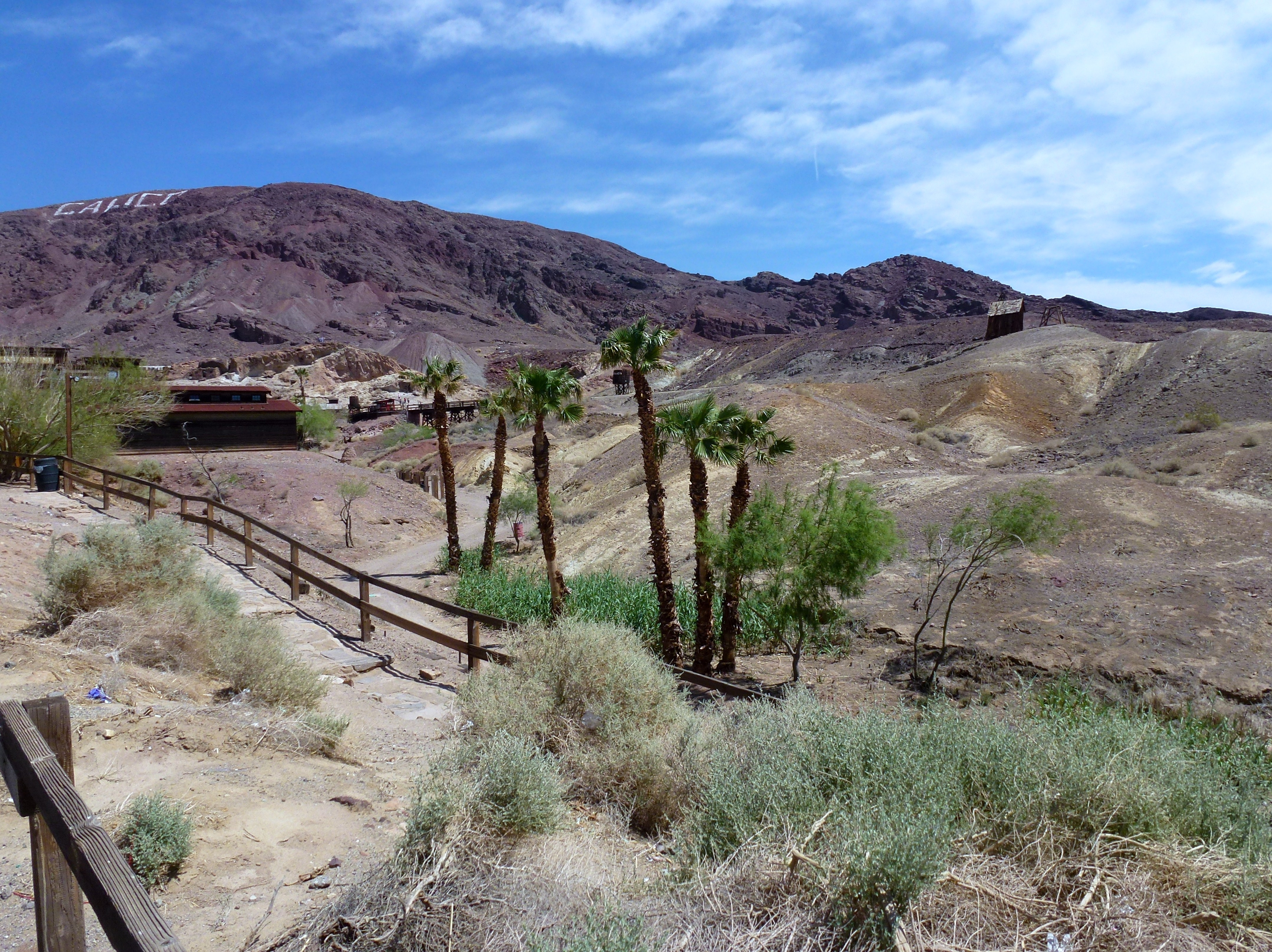 The Calico Mountains and Calico Ghost Town — in the Mojave Desert, near Barstow in San Bernardino County, Southern California.